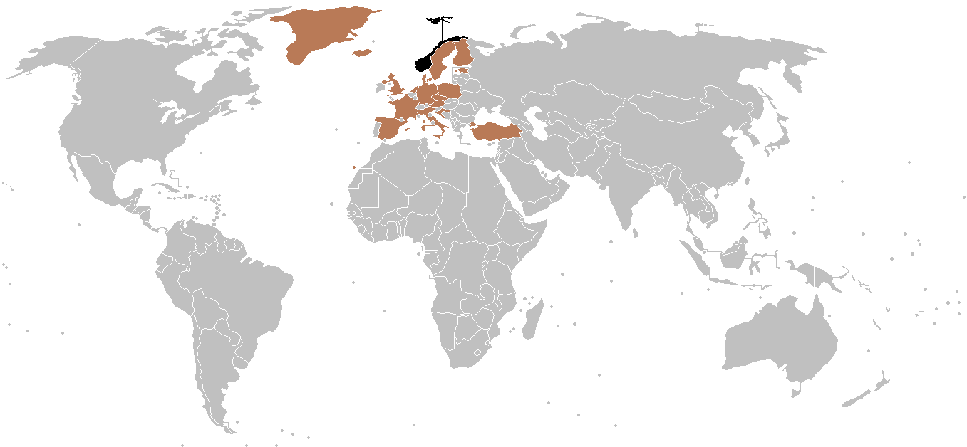 Destinations from Bergen Airport, Flesland from March 2010.